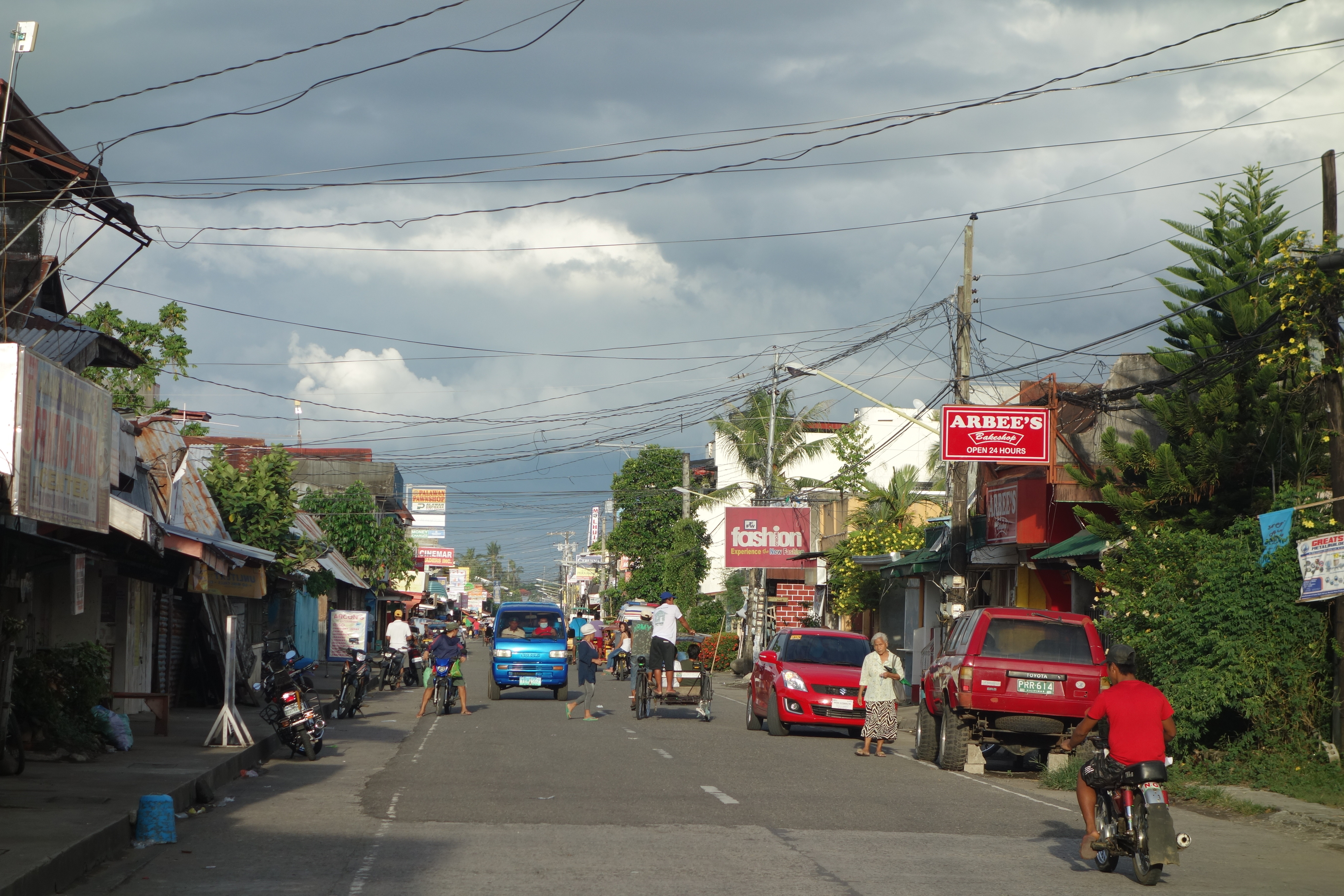 Picture taken during a Sunday at Real St., Carigara PH